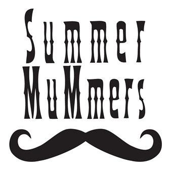 The logo for Summer Mummers